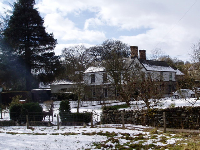 Druid Inn. The Druid Inn is at the junction of the A5 and the Bala road, A494.